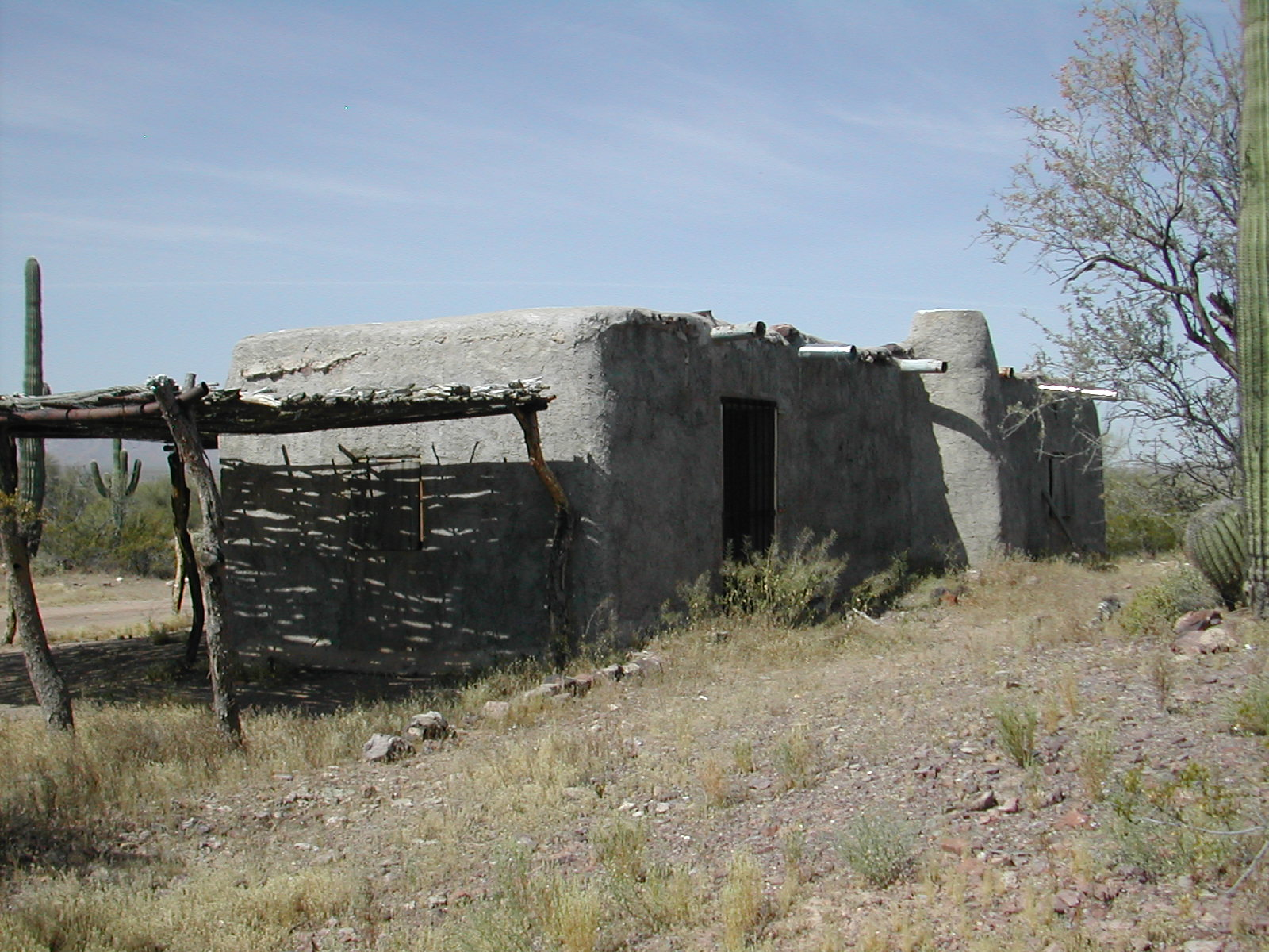 Ranchhouse at the Dos Lomitas Ranch — in Organ Pipe Cactus National Monument, southern Arizona, USA.